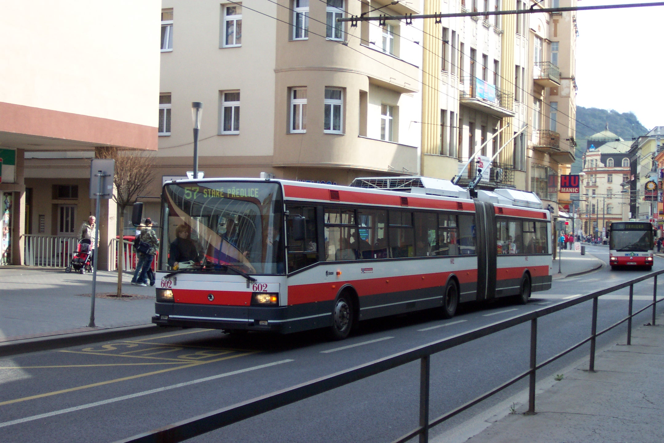 Ústí nad Labem, Revoluční street - city centre, trolleybus Škoda 22Tr